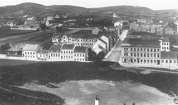 Krim, Krottenbachstraße from Hugo-Wolf-Park 1900. On the left side the Bensdorp factory, in the middle Rodlergasse with Kaasgrabenkirche (Unterdöbling)